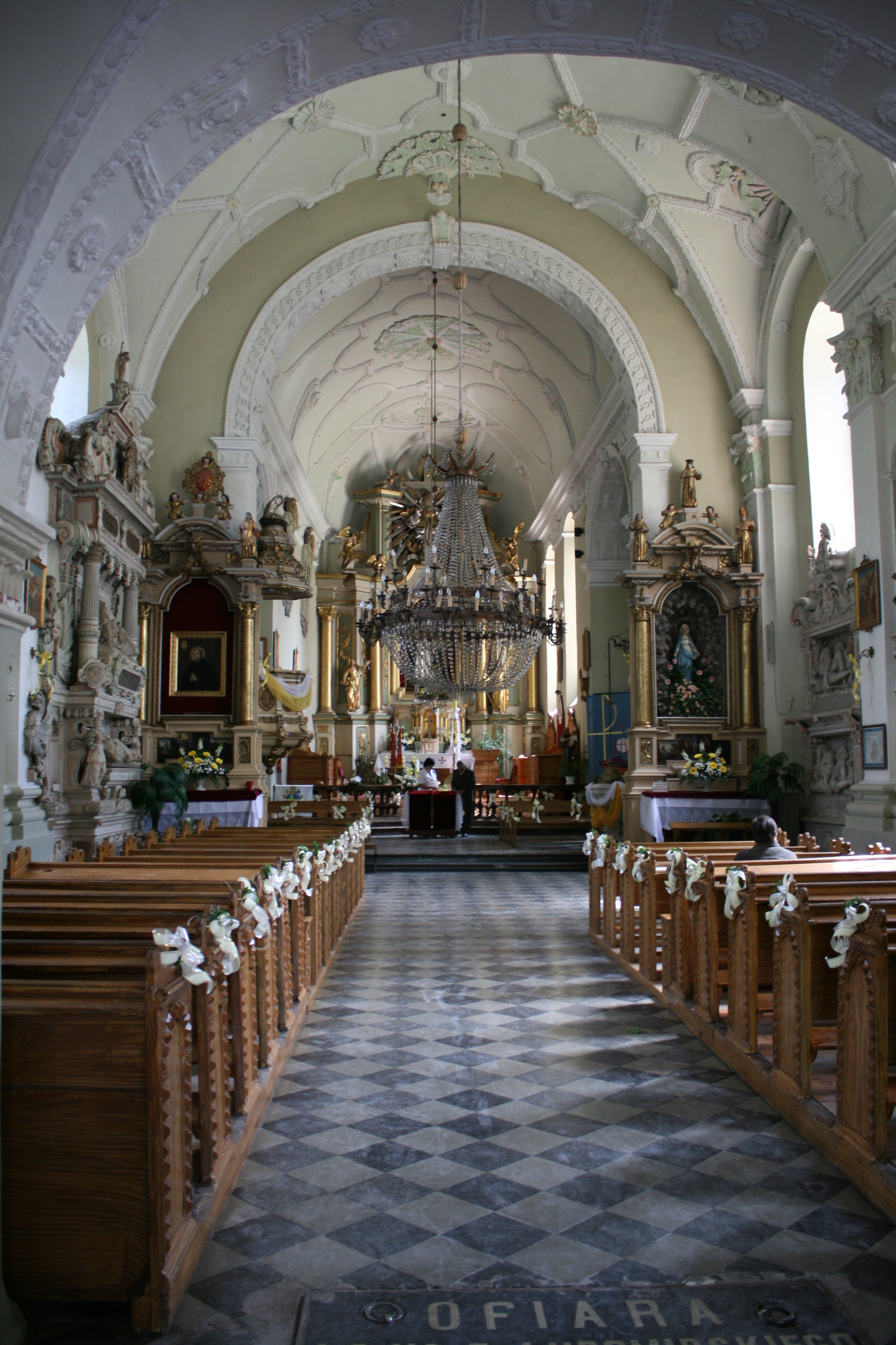 Church in Uchanie